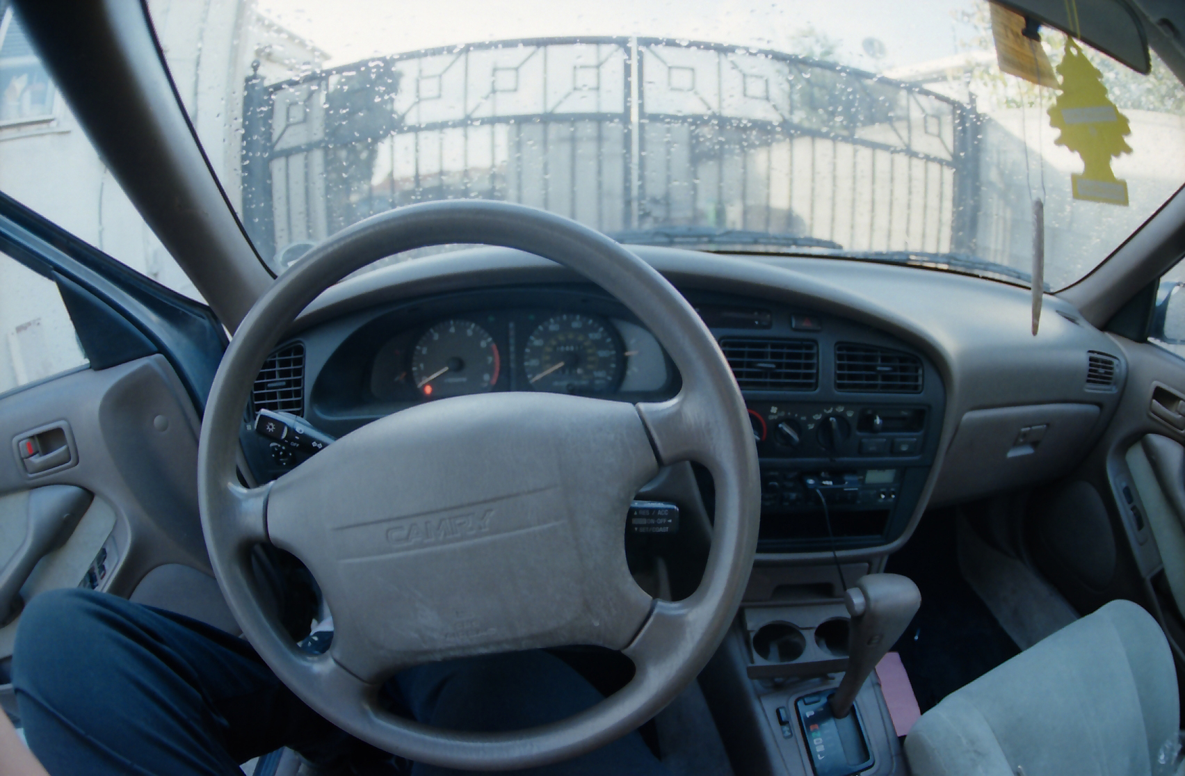 Interior of a 1992-1996 Toyota Camry (SXV10), photographed in North America.